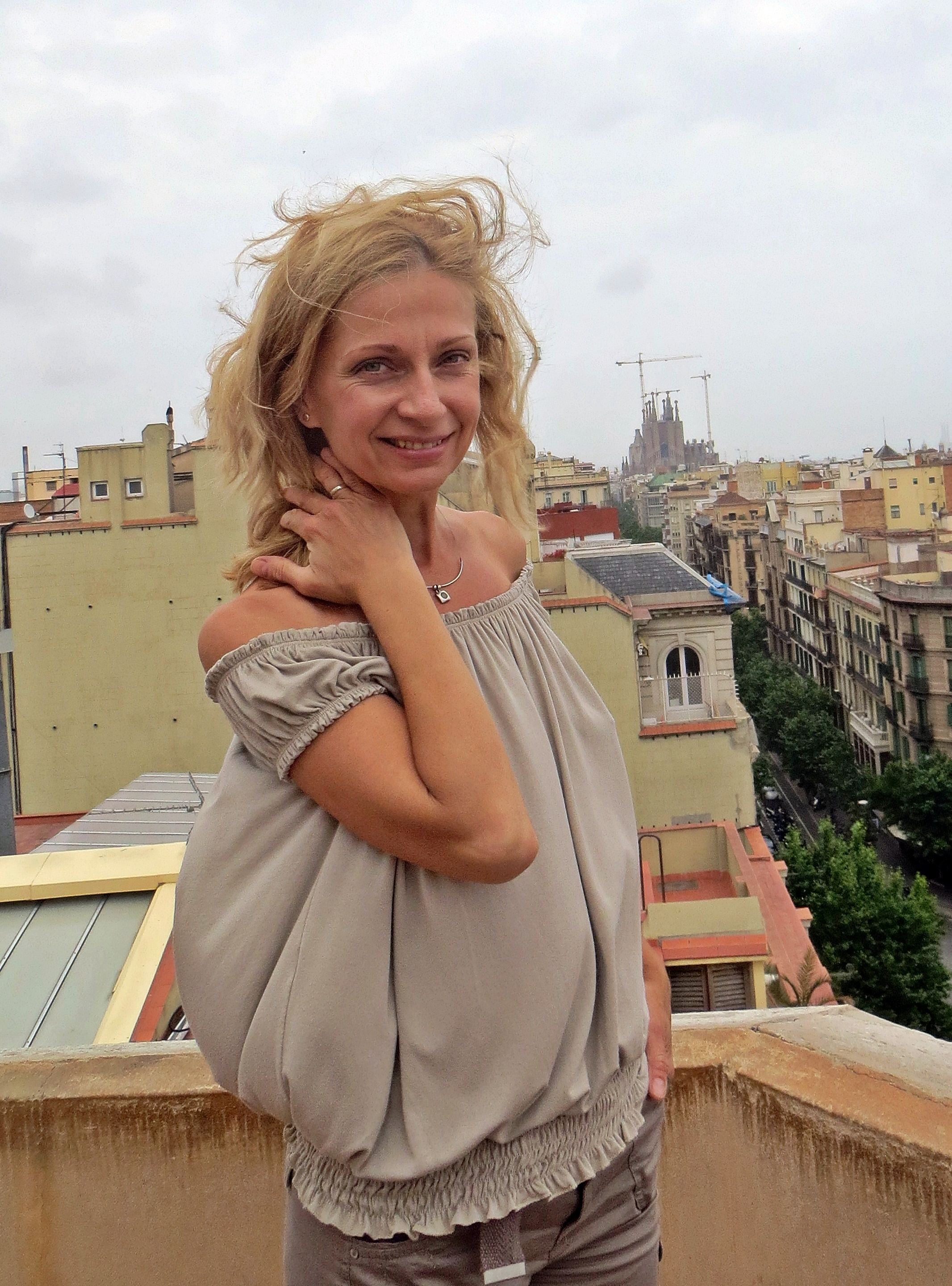 Natália Nagy and Sagrada Família